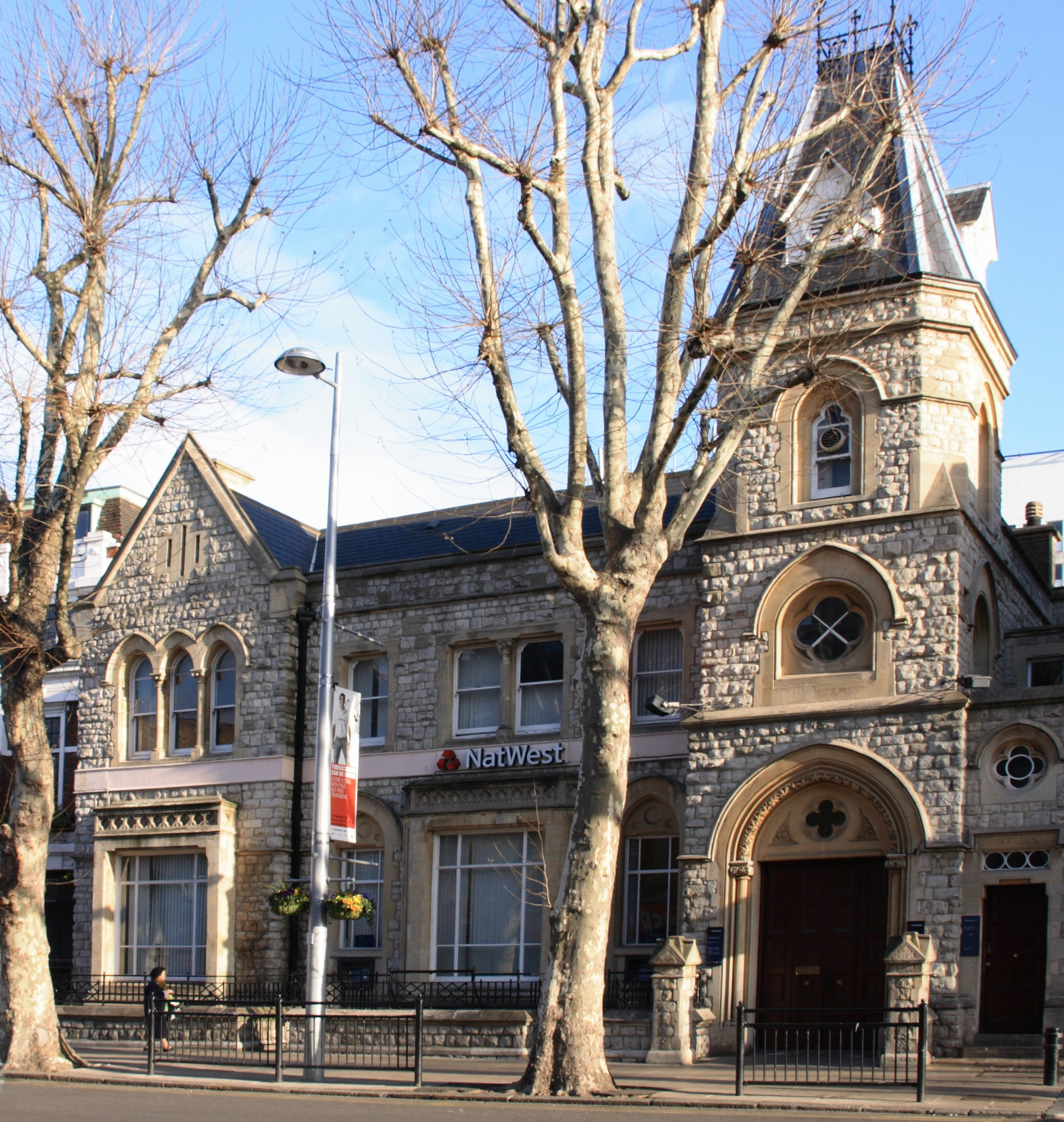 This building was the first purpose built council offices for the Ealing Local Board. Architect: Charles Jones. The new town hall is some 500 yards further to the west on same side of the road, at the junction with Longfield Avenue.